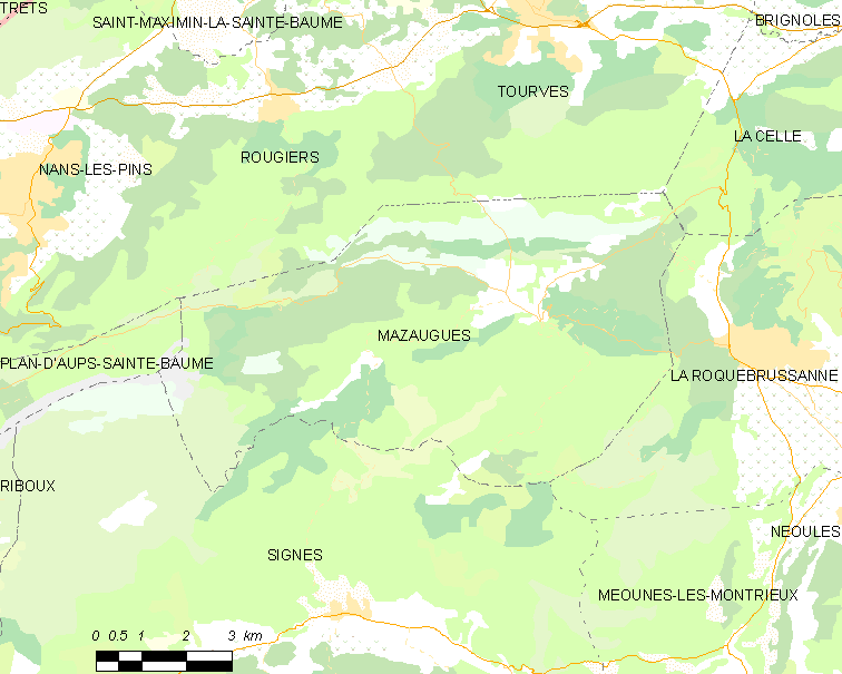 Map of French municipality Mazaugues